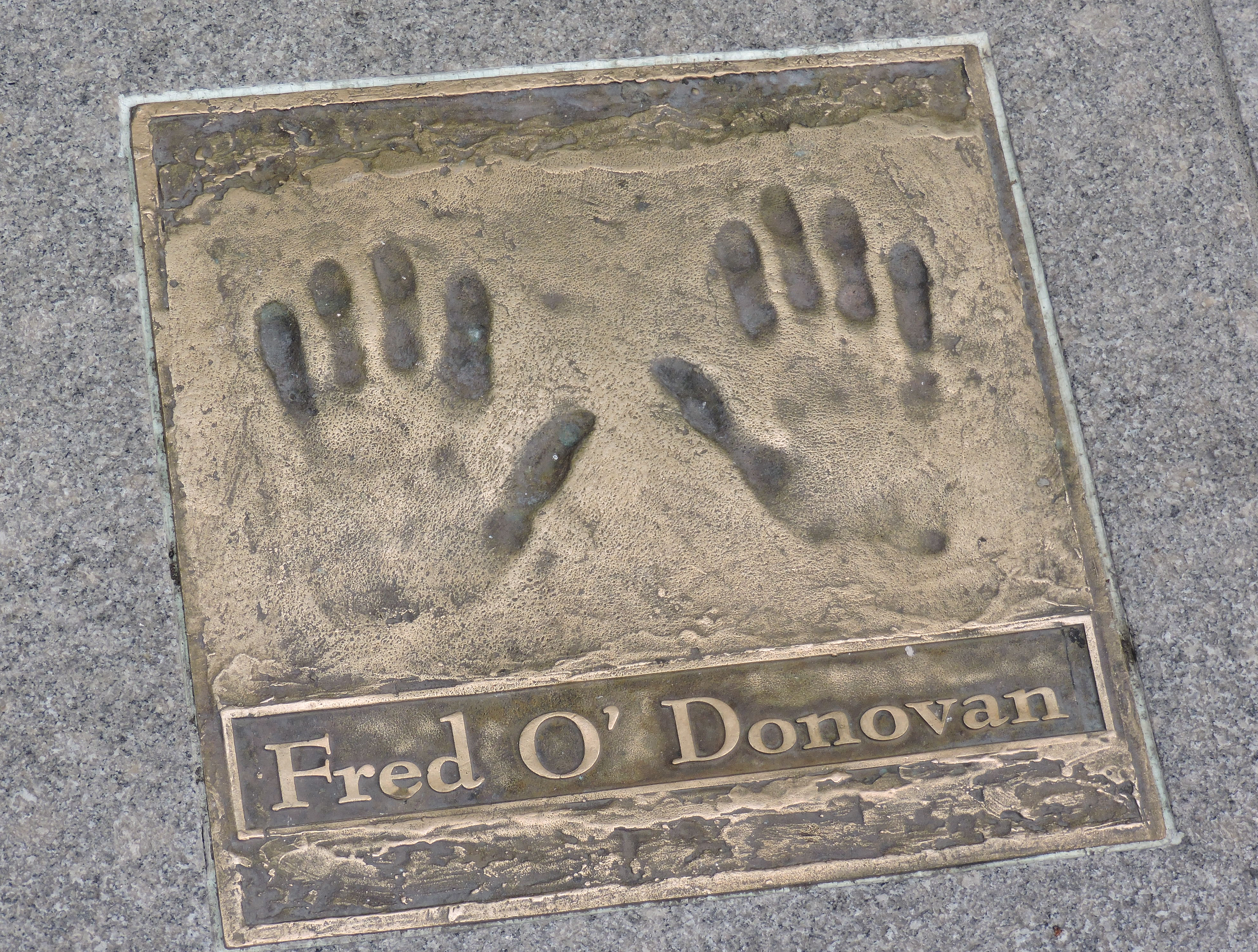 Fred O'Donovan handprints (South King Street, in front of the Gaiety Theatre, Dublin)